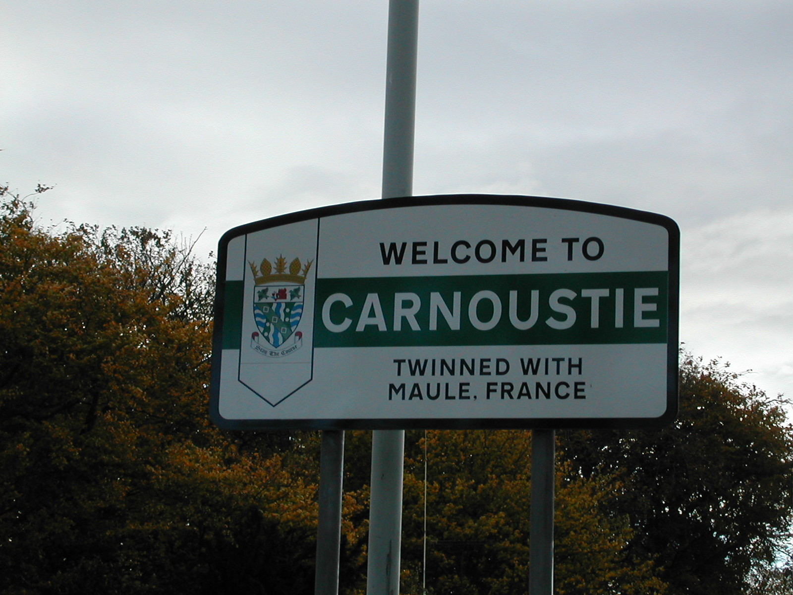 Nom du fichier : DSCN2455.JPG Taille du fichier : 390.3 Ko (399670 octets) Date : 2003/10/25 13:14:56 Taille de l'image : 1600 x 1200 pixels Résolution : 300 x 300 ppp Profondeur en bits : 8 bits/canal Attribut de protection : Désactivé Attribut Masqué : Désactivé ID de l'appareil : N/A Appareil : E775 Mode de qualité : NORMAL Mode de mesure : Multizones Mode d'exposition : Programme Auto Speed Light : Non Distance Focale : 15.2 mm Vitesse d'obturation : 1/496 seconde Ouverture : F4.5 Correction d'exposition : 0 IL Balance des blancs : Auto Objectif : Intégré Mode Synchro-Flash : Premier Rideau Différence d'exposition : N/A Programme Décalable : N/A Sensibilité : Auto Renforcement de la netteté : Auto Type d'image : Couleur Mode Couleur : N/A Saturation : N/A Contrôle Saturation : N/A Compensation des tons : Normal Latitude (GPS) : N/A Longitude (GPS) : N/A Altitude (GPS) : N/A